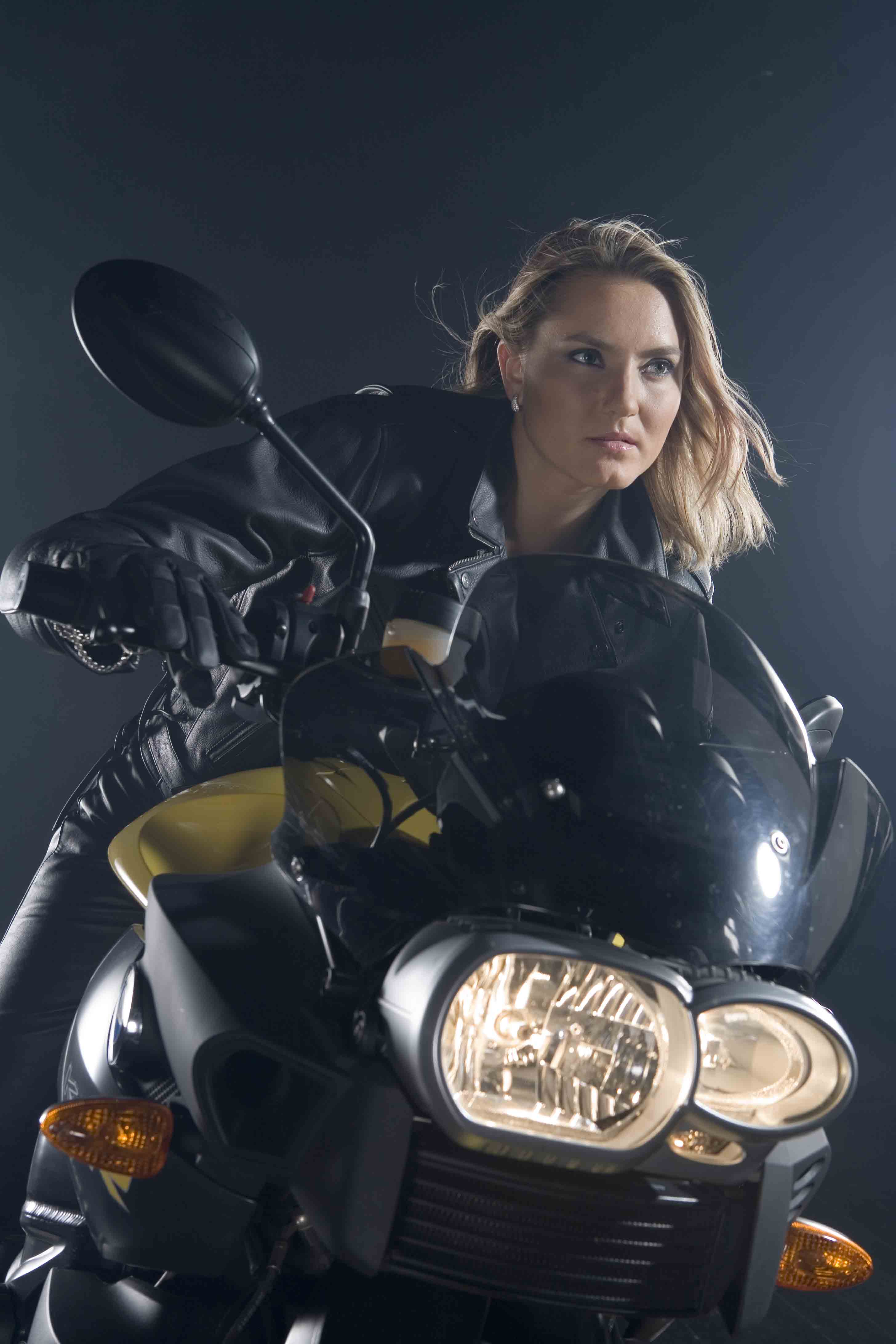 Petrova Nadezhda, russian tennis player